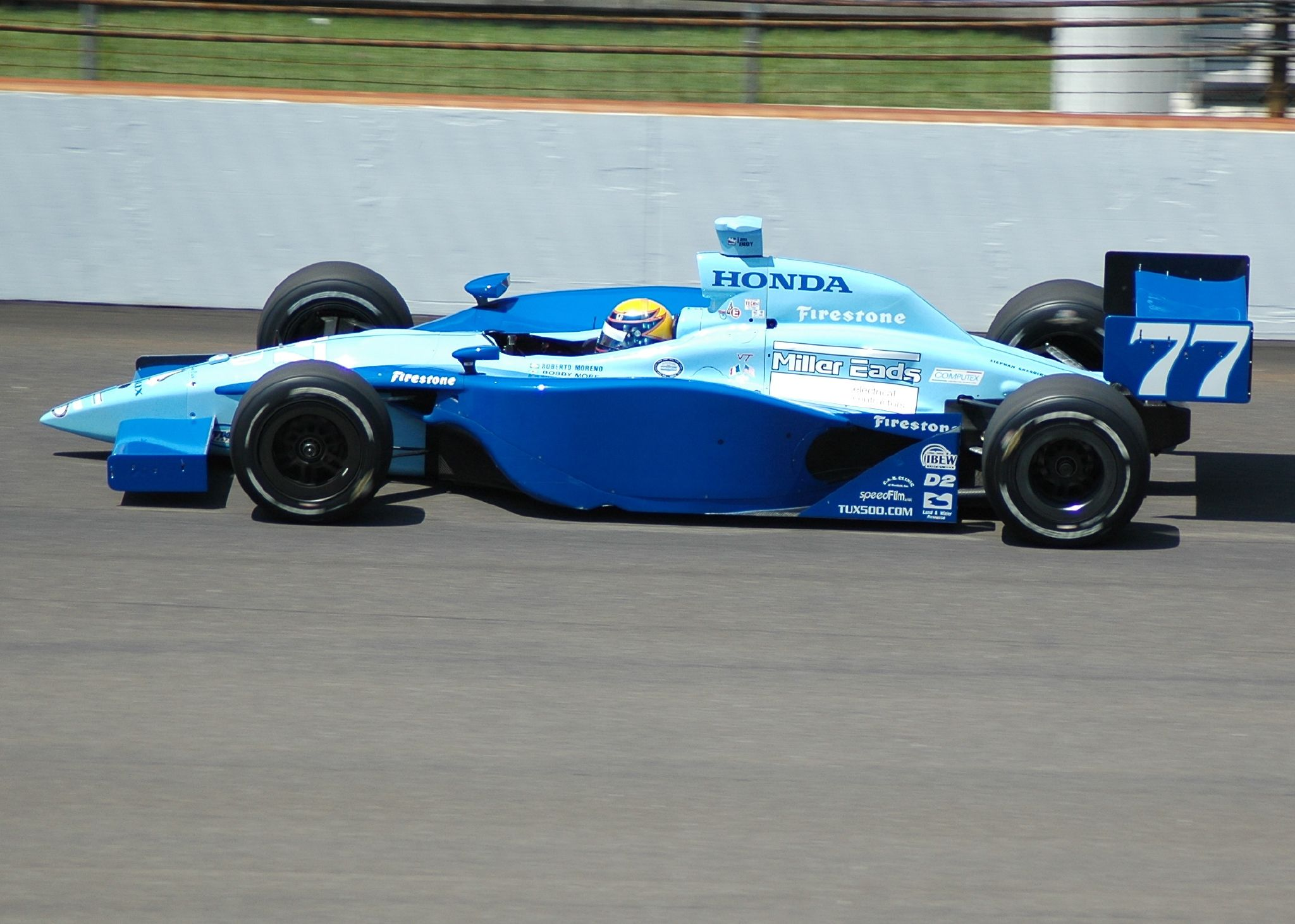 Roberto Moreno practicing for the